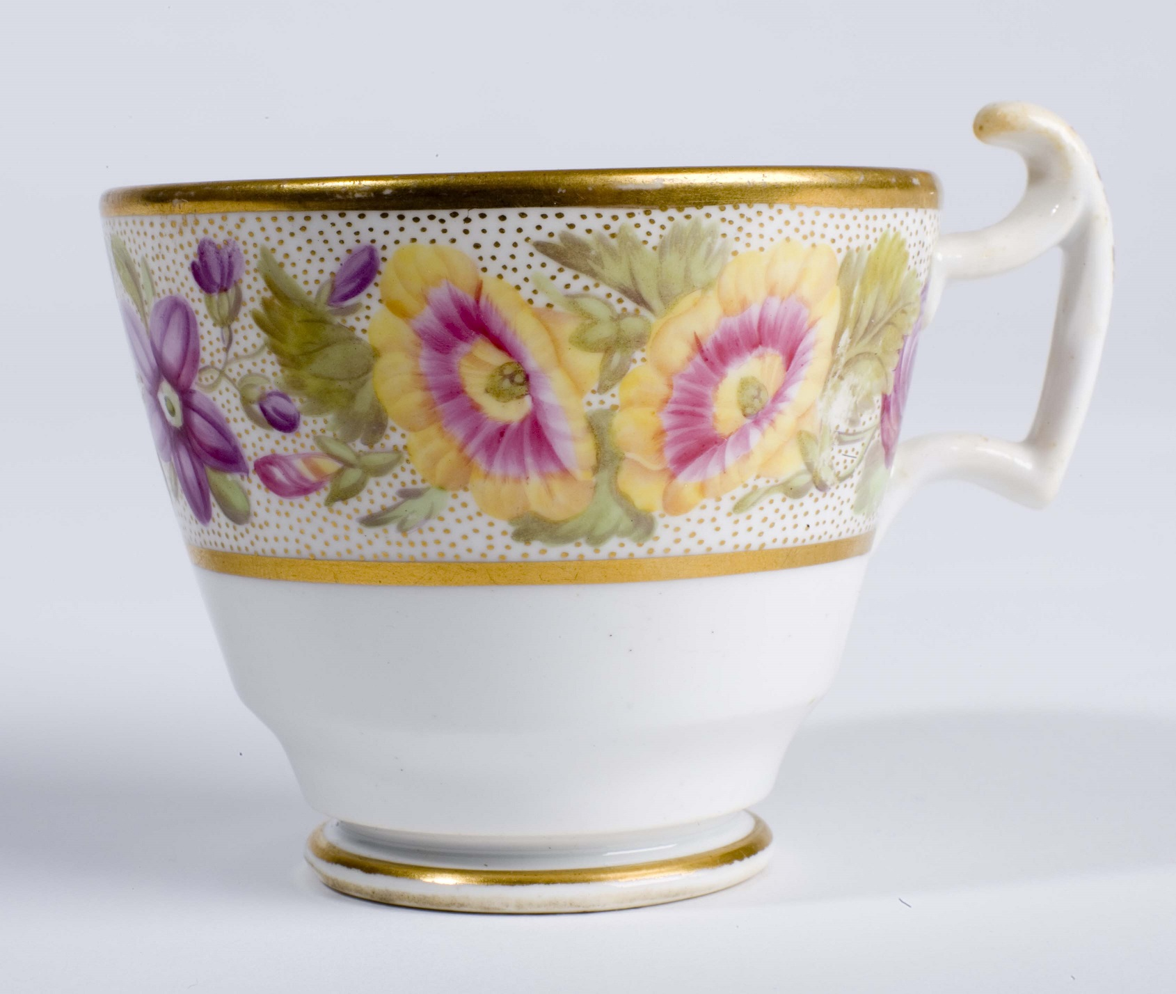 teacup manufacturer: Minton & Co. (English, estab. 1793) circa 1815 The Johnston Collection. The first object acquired by William Johnston.